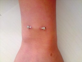 Female Wrist Piercing